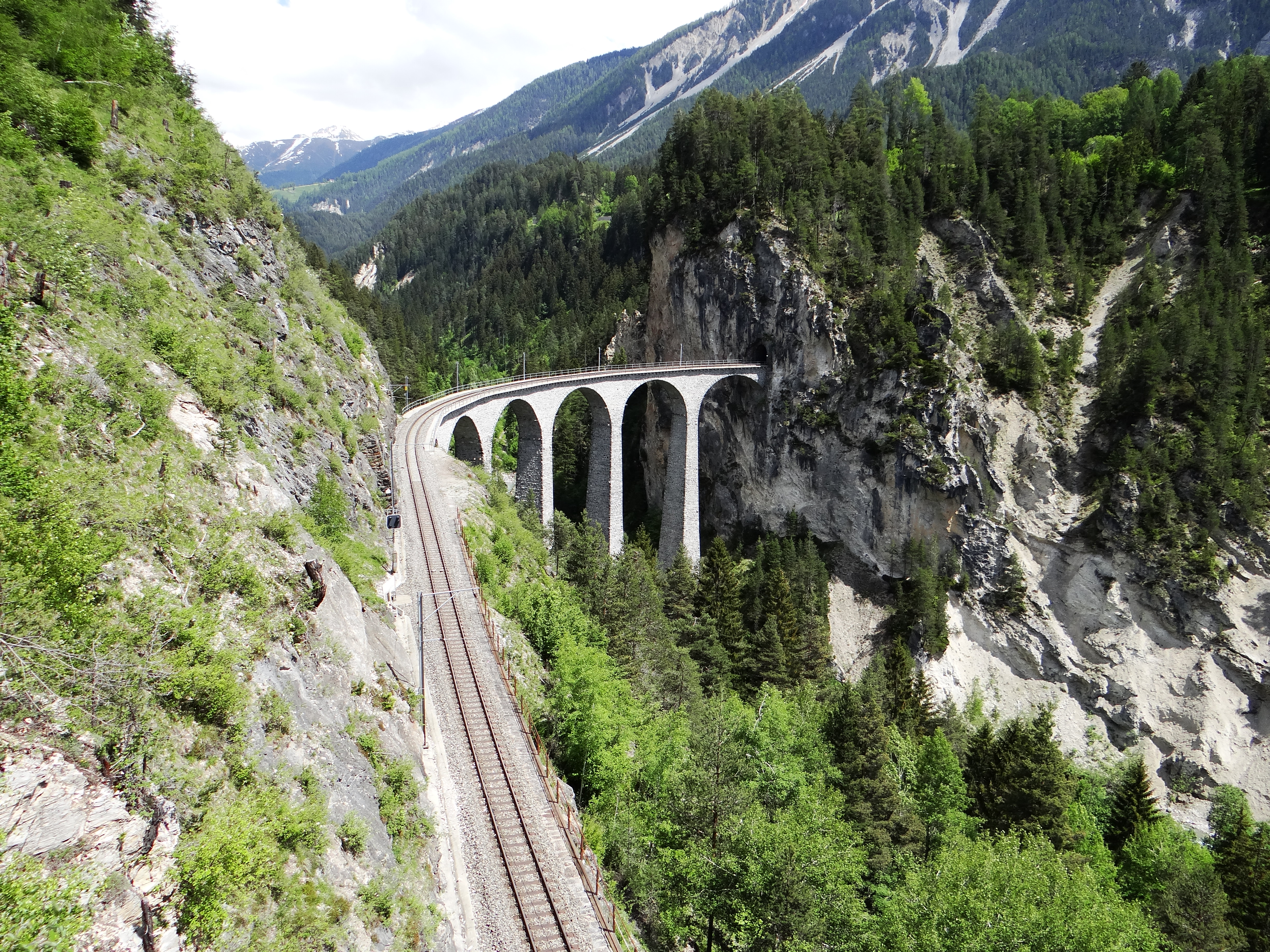 Landwasser Viaduct